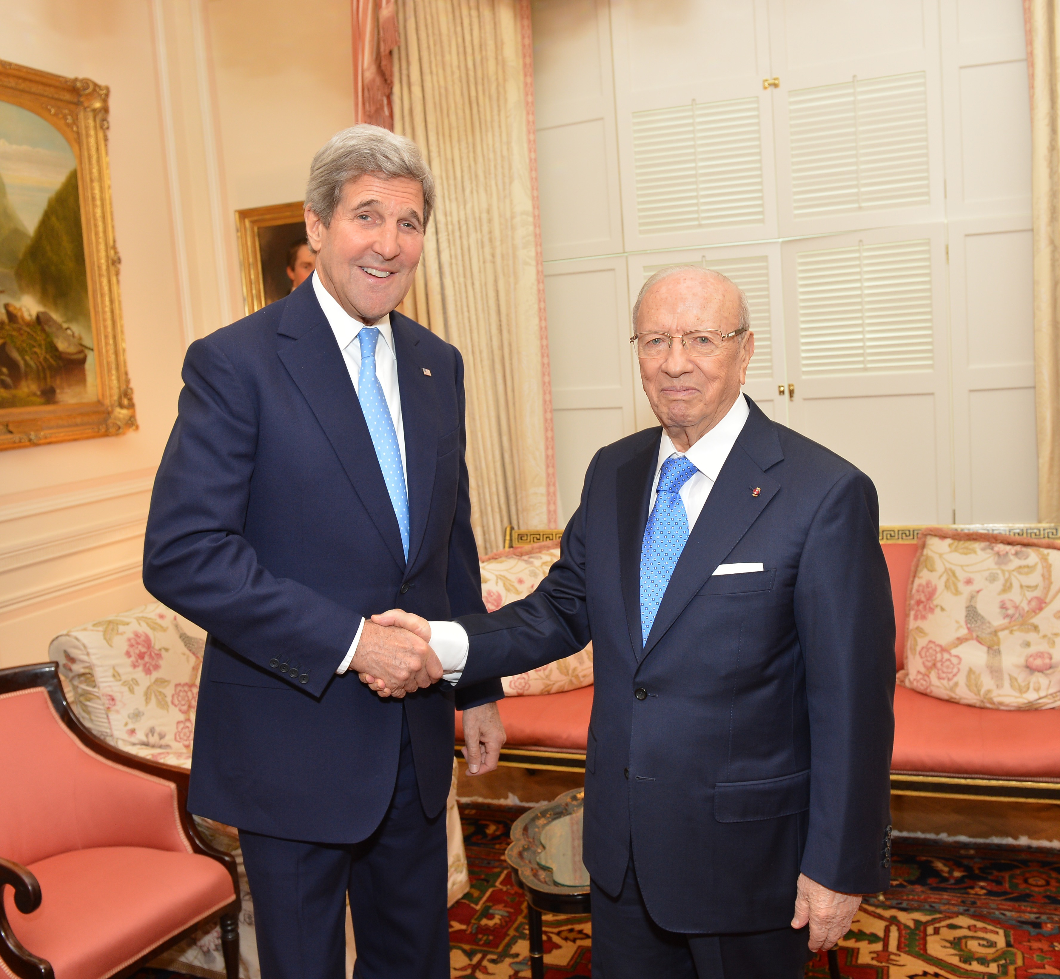 U.S. Secretary of State John Kerry shakes hands with Tunisian President Beji Caid Essebsi at the Blair House in Washington, DC on May 20, 2015. [ State Department Photo/Public Domain ]